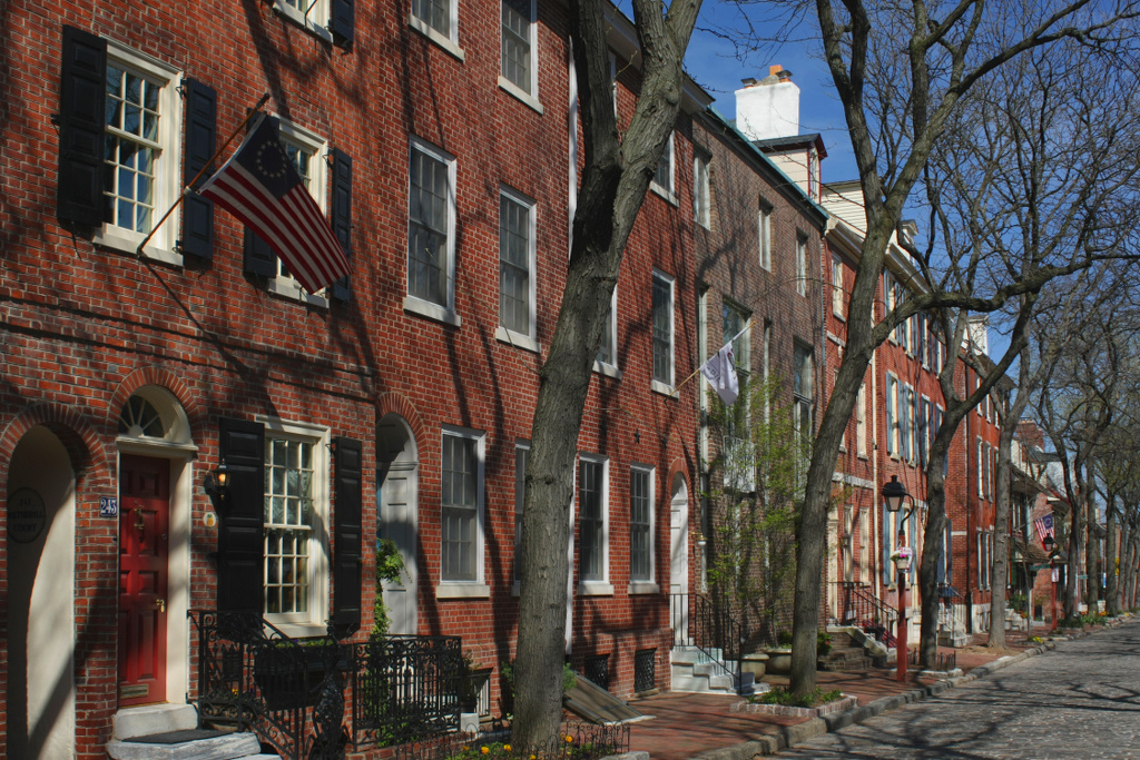 Delancey Street in the Society Hill section of Philadelphia, Pennsylvania, USA - north side between 2nd and 3rd Streets, looking east toward 2nd St. The Cassey House is the first house on the left - #243.